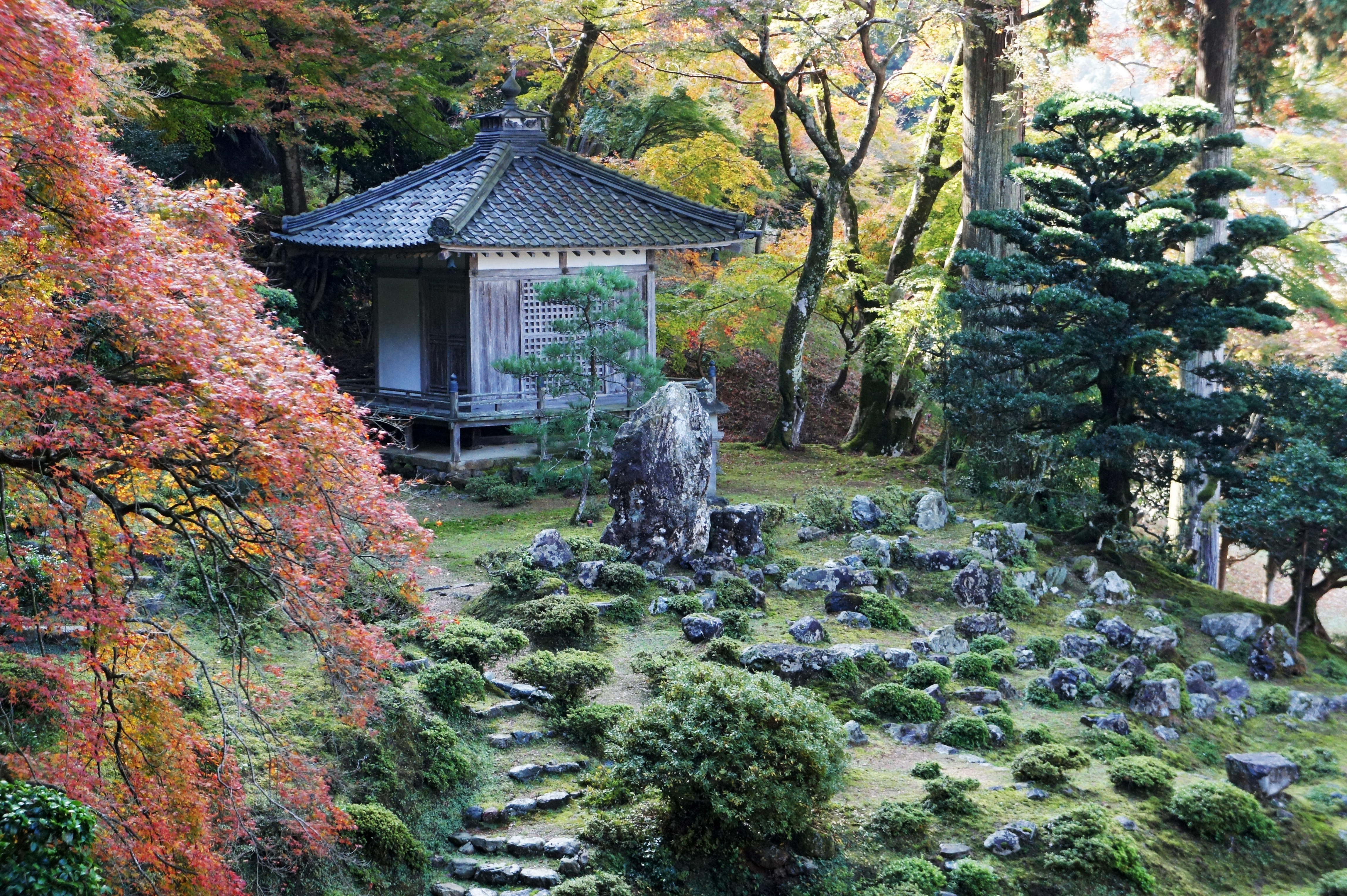 Mantoku-ji in Obama, Fukui prefecture, Japan.